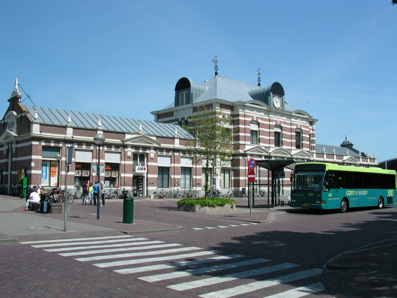 Station Hoorn, the central train station of the city Hoorn